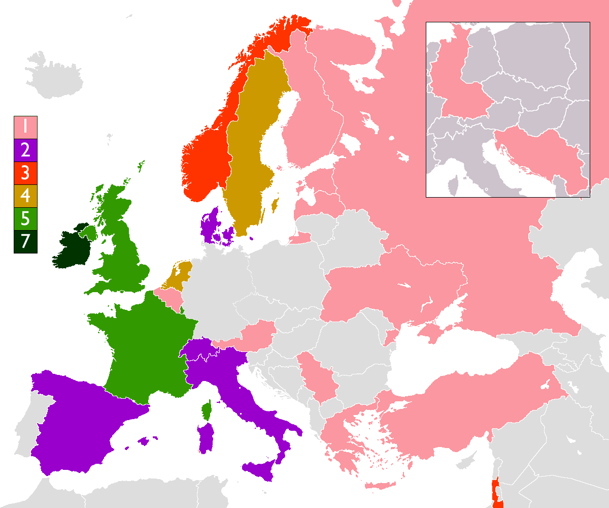 A map of Europe showing how many times each country has won the Eurovision Song Contest